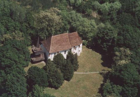 Nagyszekeres, Hungary, aerialphotography This is a photo of a monument in Hungary. Identifier: 8329